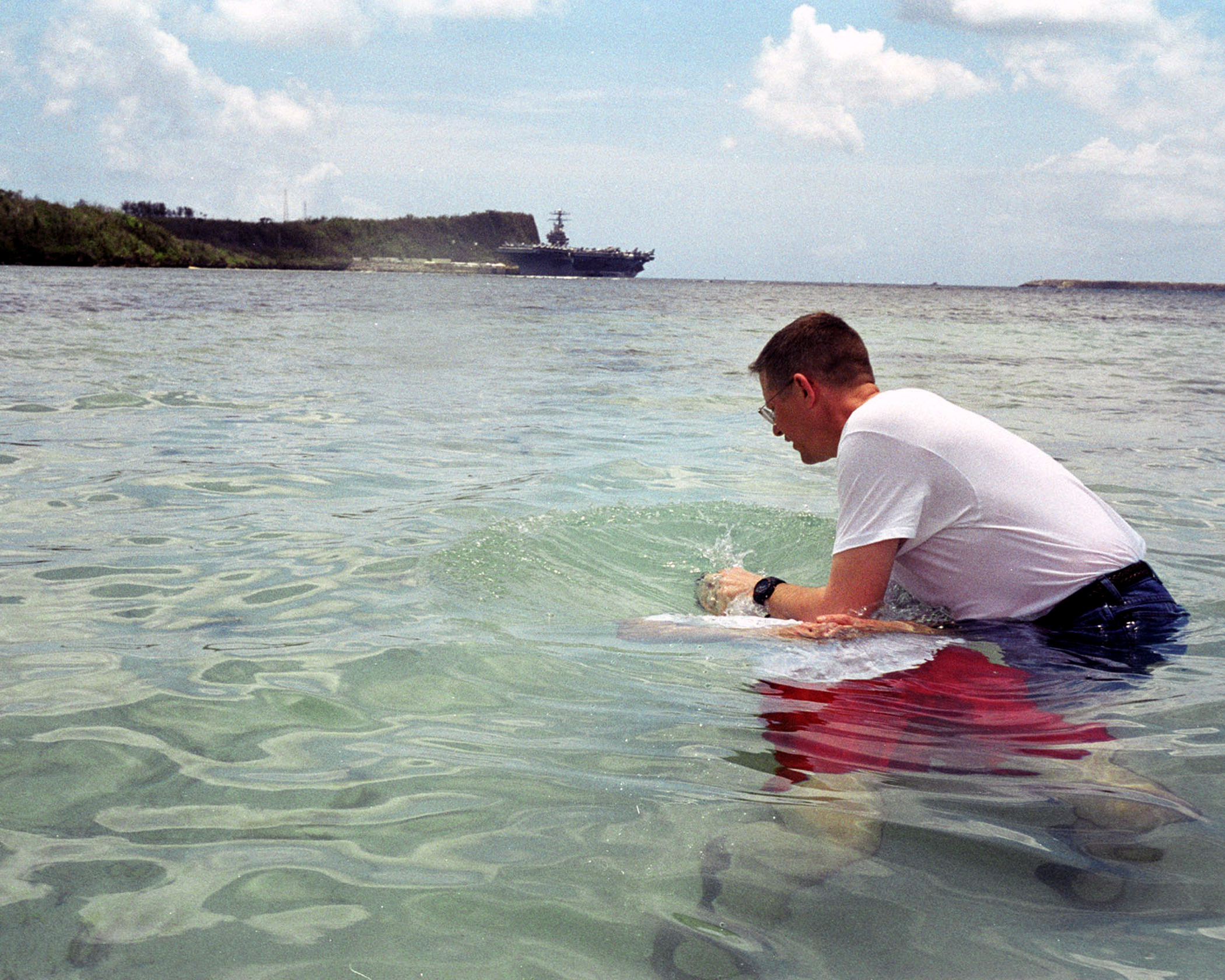 Apra Harbor, Guam (Apr. 20, 2003) -- Chief electronics technician Geoffrey Ormston is immersed in the waters of Apra Harbor, Guam by chaplain Richard Inman during a baptismal ceremony on Easter Sunday. Carl Vinson Carrier Strike Group is participating in the military training exercise TANDEM THRUST 03 in the Marianas Island training area. The exercise will focus on crisis action planning and execution of contingency response operations.